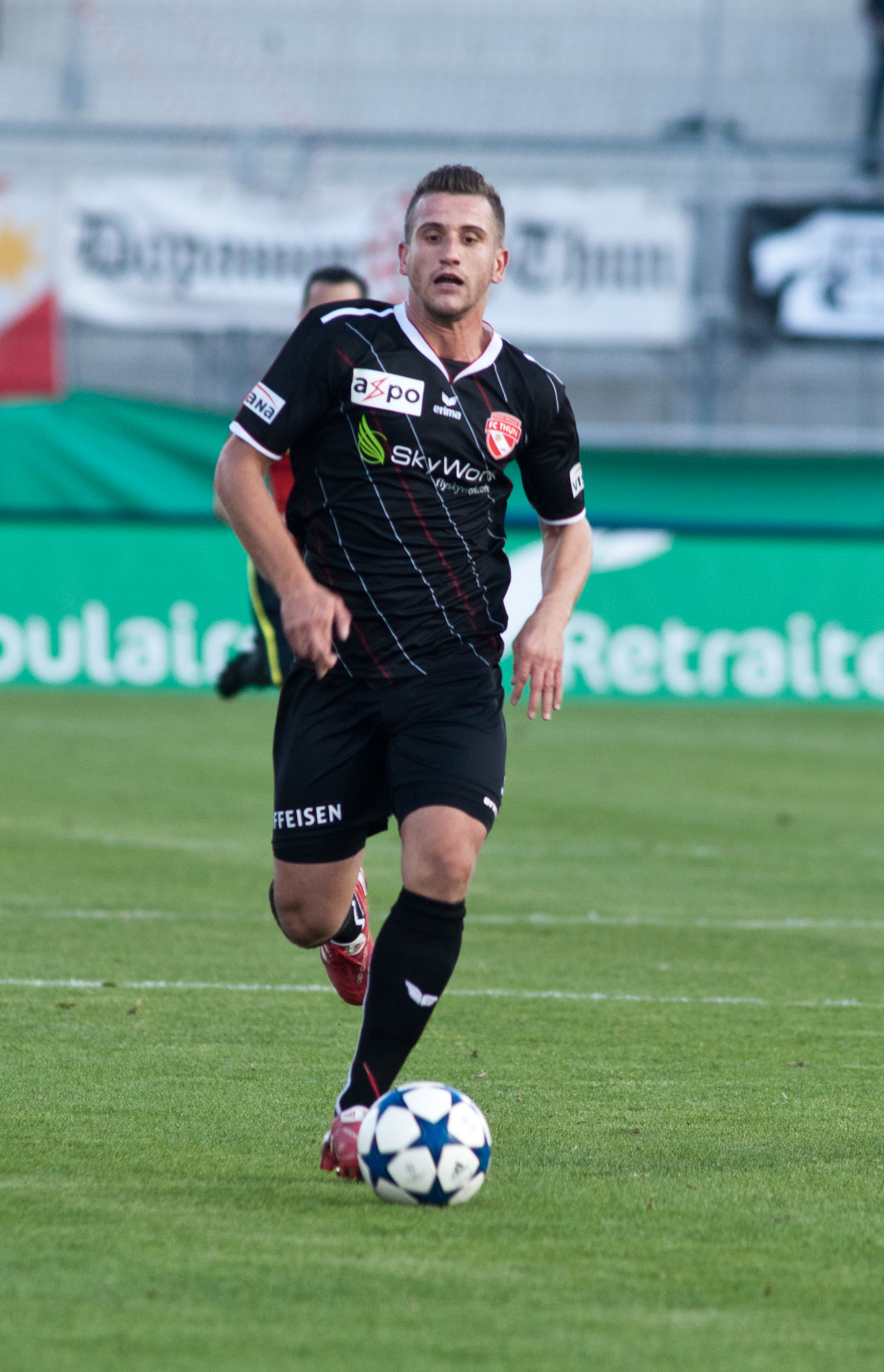 The making of this document was supported by Wikimedia CH. (Submit your project!) For all the files concerned, please see the category Supported by Wikimedia CH. Lausanne Sport vs. FC Thun - 22.10.2011